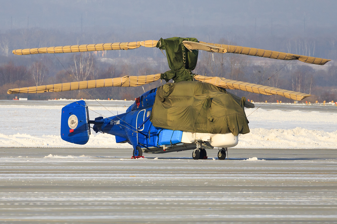 Avialift Vladivostok Kamov Ka-32 (RA-31590) at Vladivostok Airport